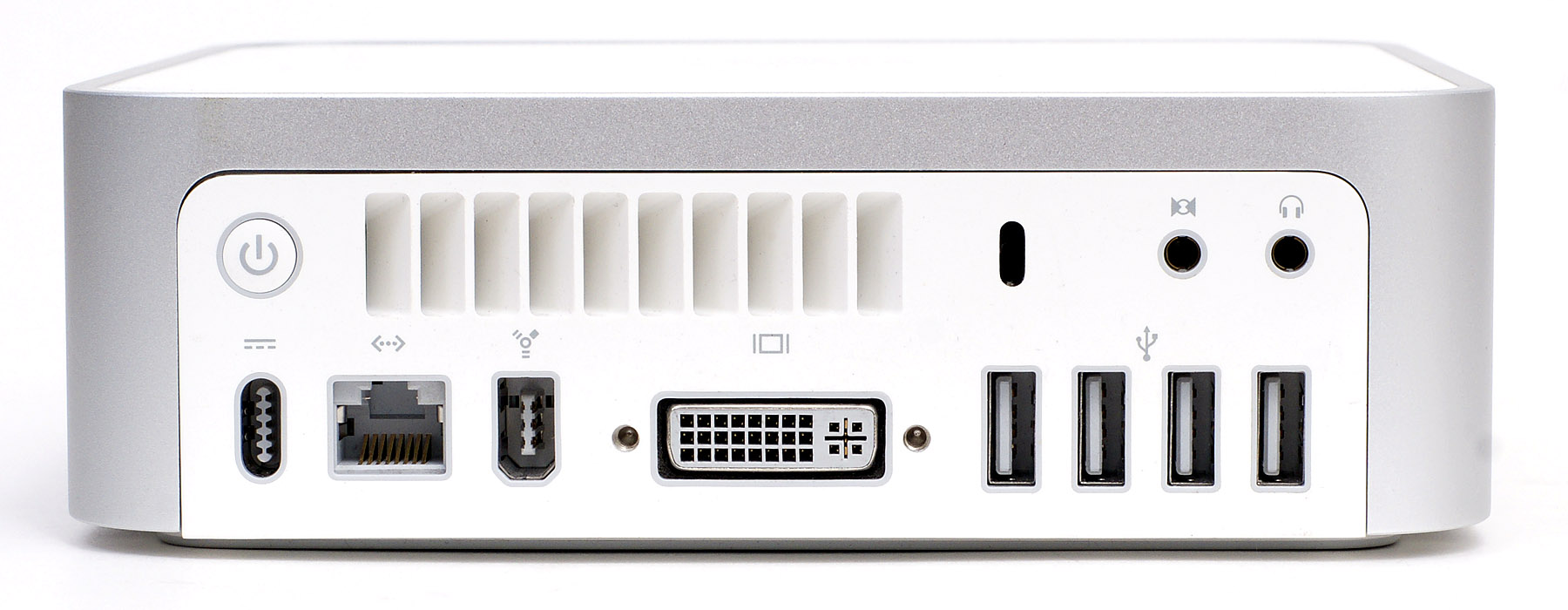 The 1st generation Mac Mini with the DVI graphics port.